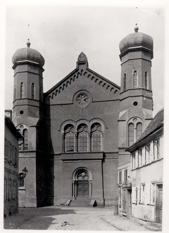 Synagogue of Bad Homburg, built in 1866, destroyed by the nazis in 1938 during the pogrom of the crystal night.